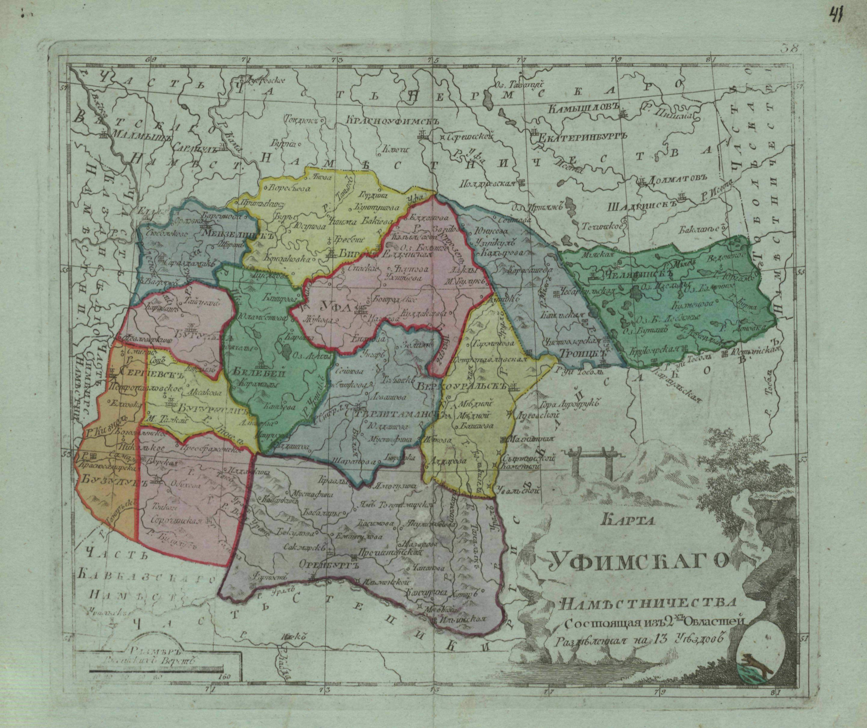 Small atlas of the Russian Empire (1796). Map of Ufa Namestnichestvo (map 41).